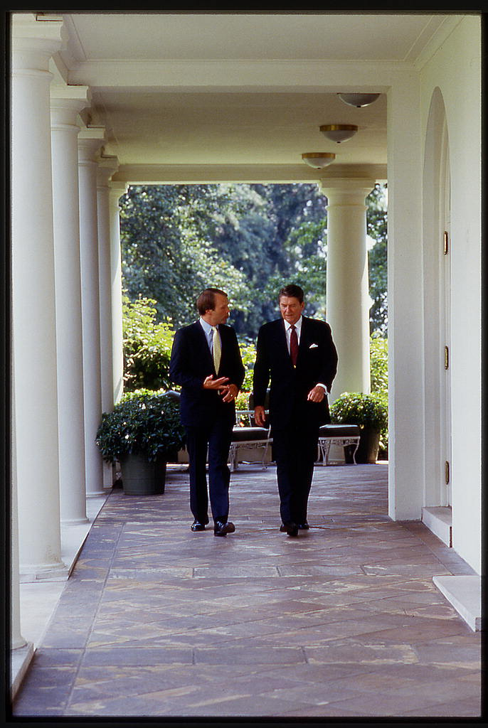 President Ronald Reagan with Republican Senator Don Nickles to support his bid for reelection